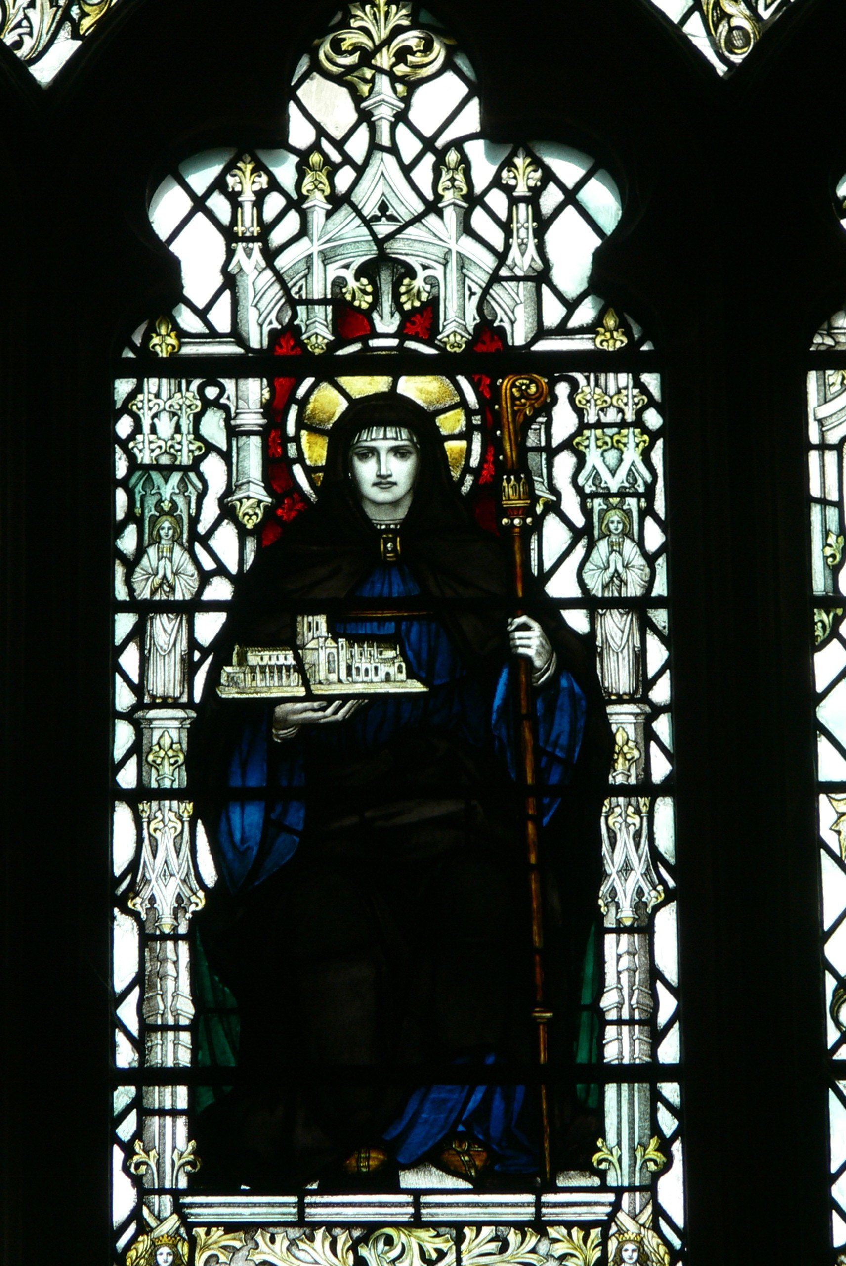 Chester (England). Cathedral: Refectory - Eastern window (1916): Saint Werburga (detail).